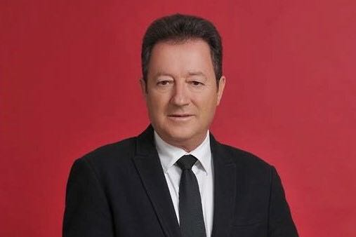 This is a picture that i captured and it is freely made to use by me